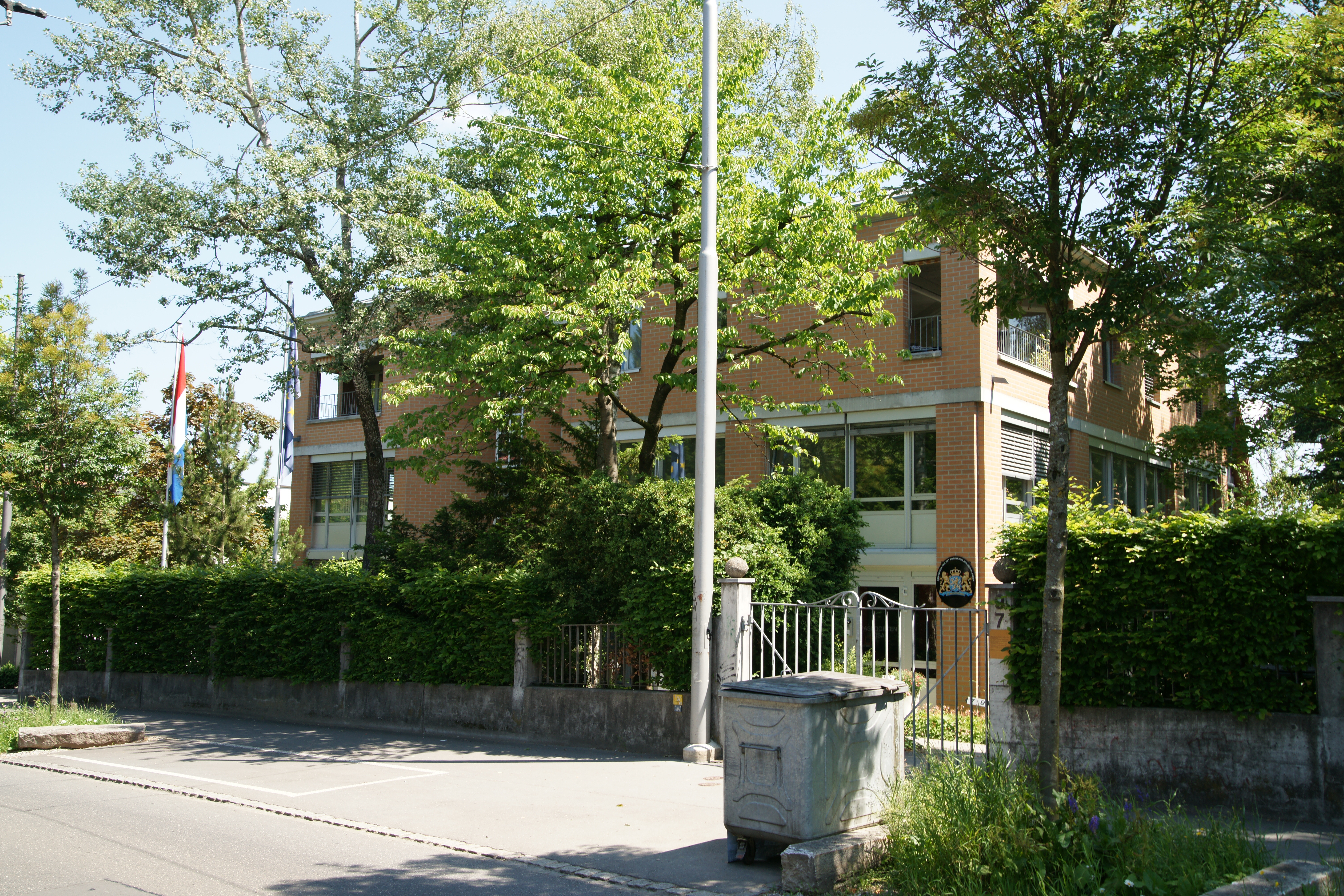 Embassy of the Netherlands on Seftigenstrasse 7, Bern, Switzerland.